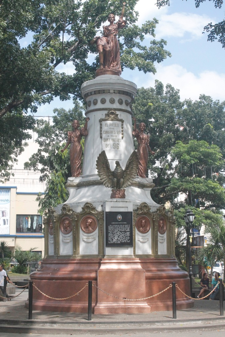 Plaza Quince Martires